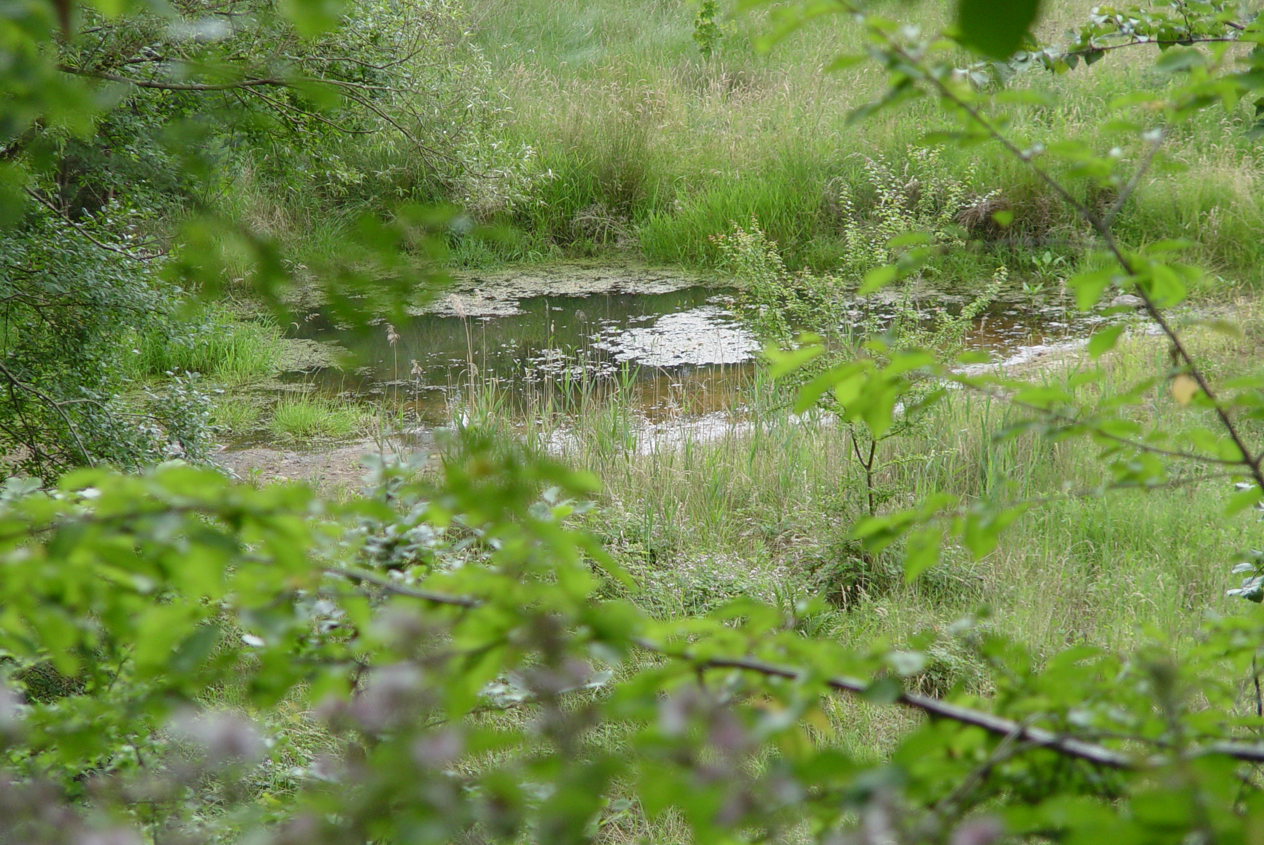 NSG00235 01, Altenbachgrund, pond on former Schweinheim LTA